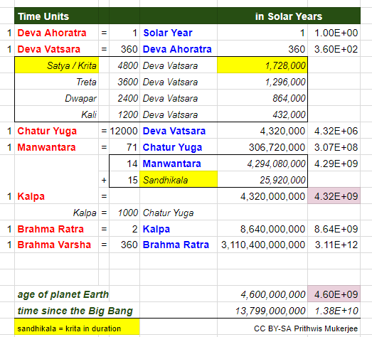 A simple chart that shows the relationships between various units of time in Hindu Cosmology